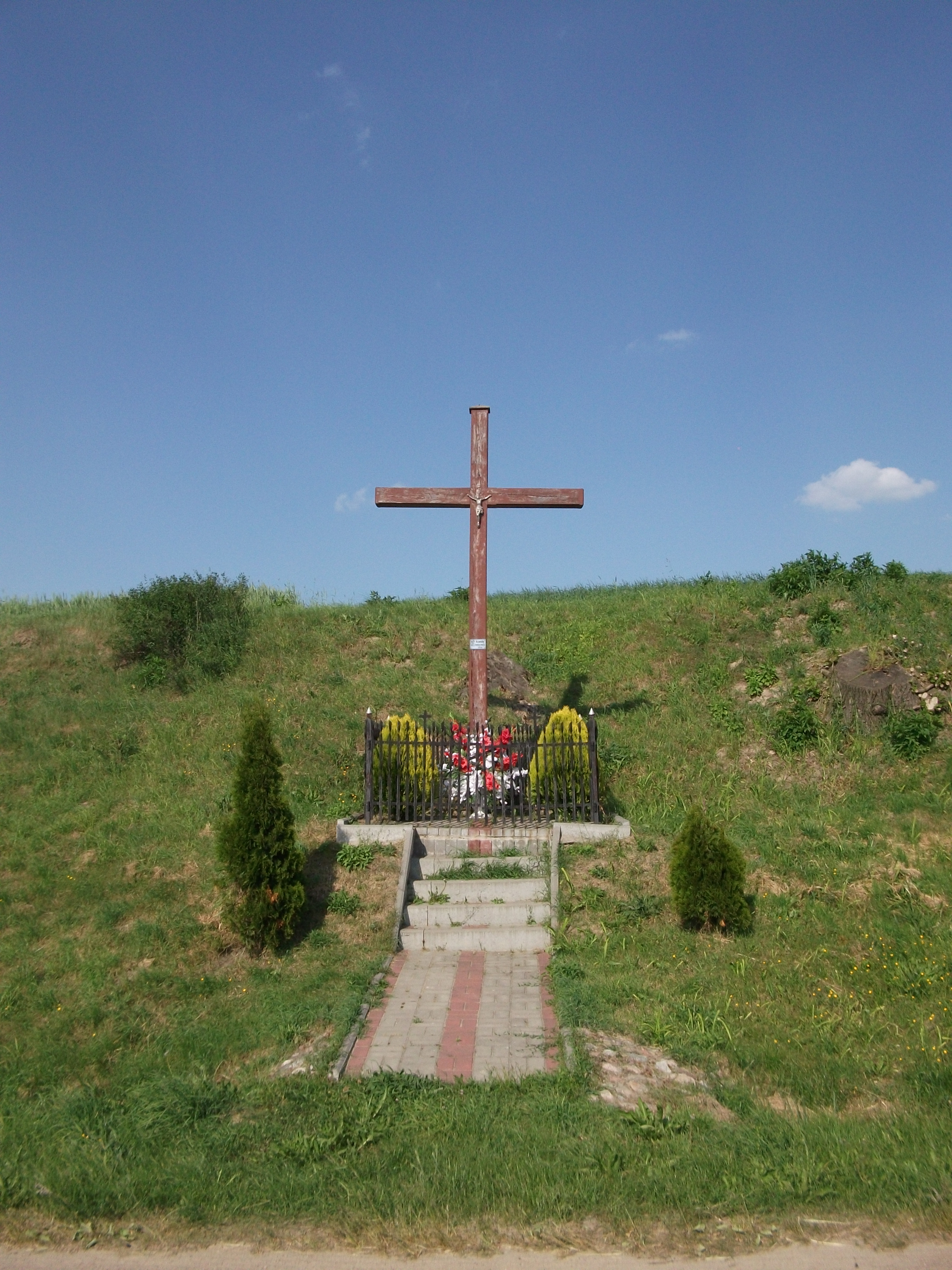 Przesławice, Łasin Community